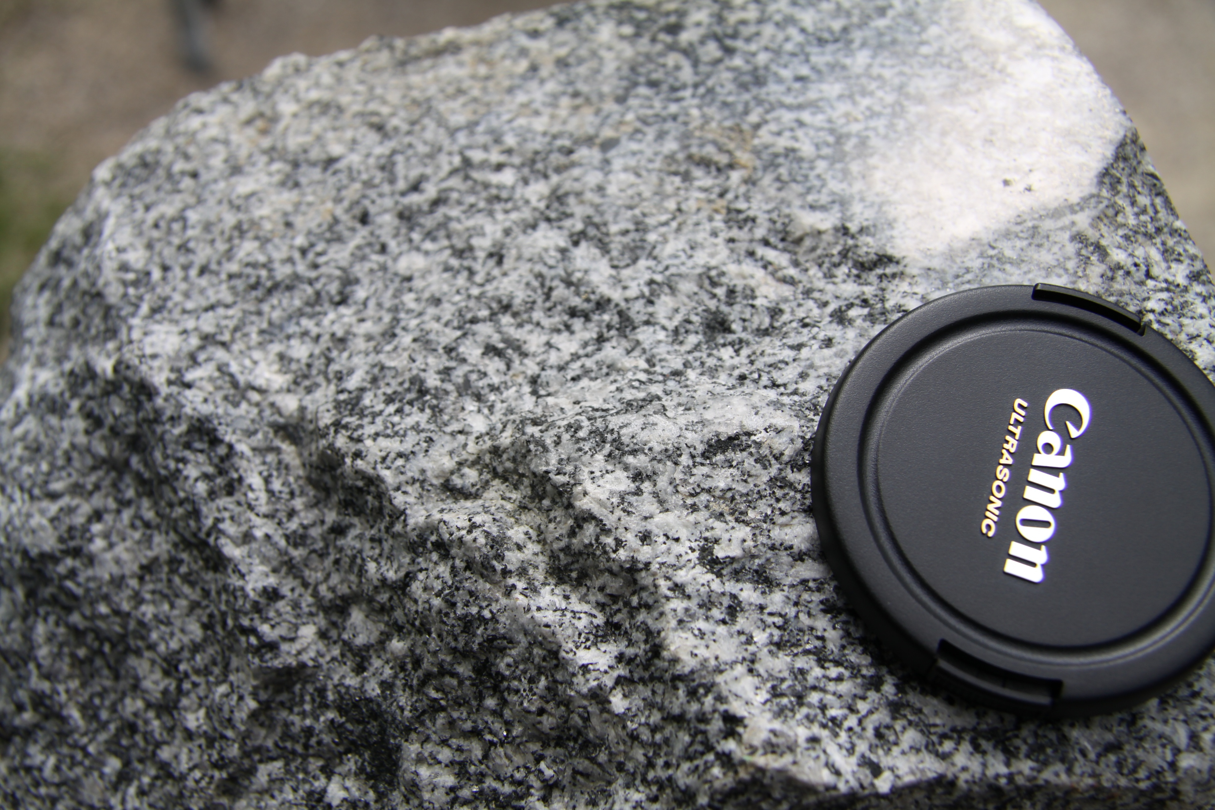 Amphibole-biotite Granodiorite in Geopark in botanic garden on Albertov, Prague, Czech Republic.